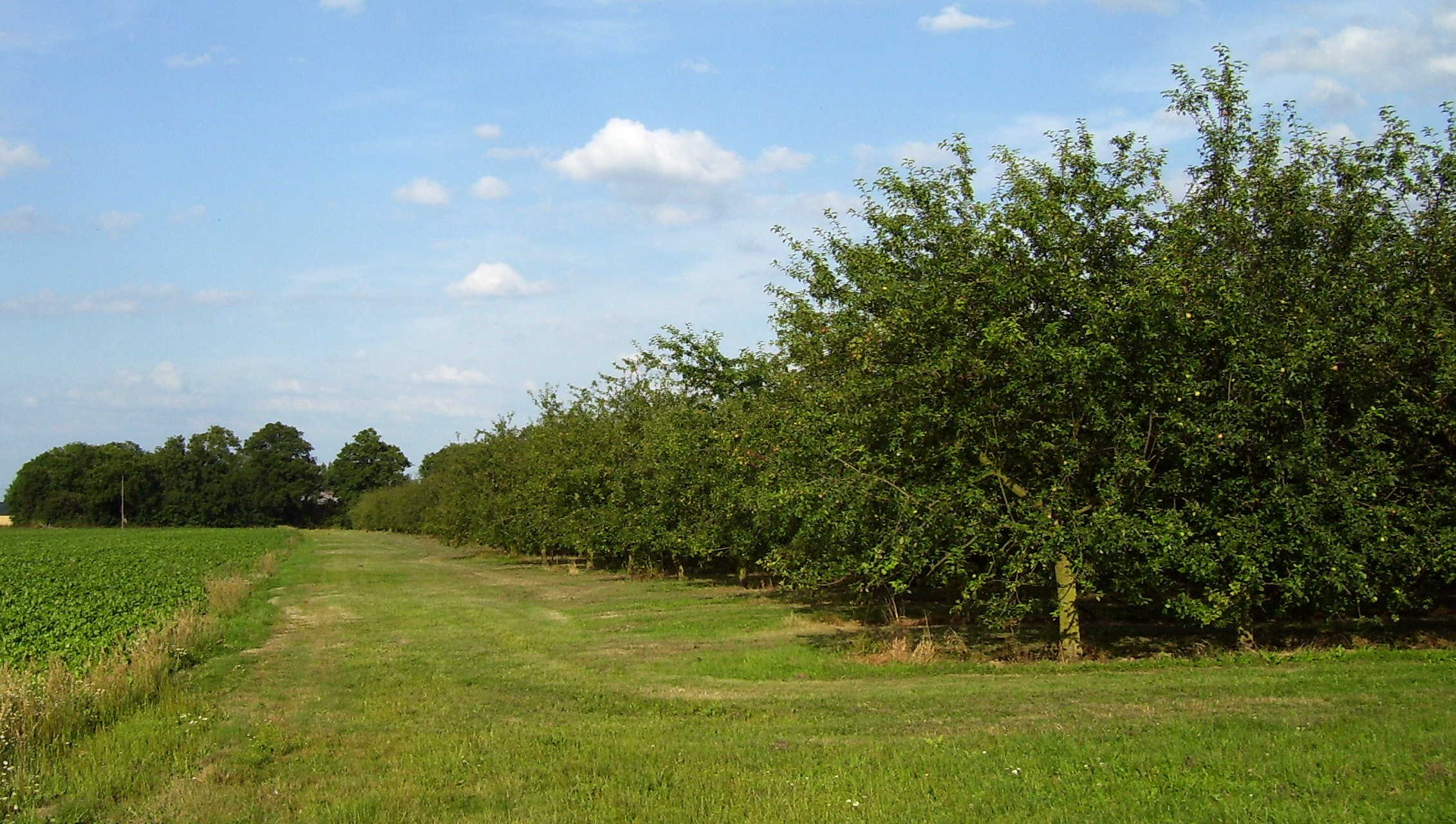 Apple trees near Berthouville, departement Eure, Haute-Normandie, France.